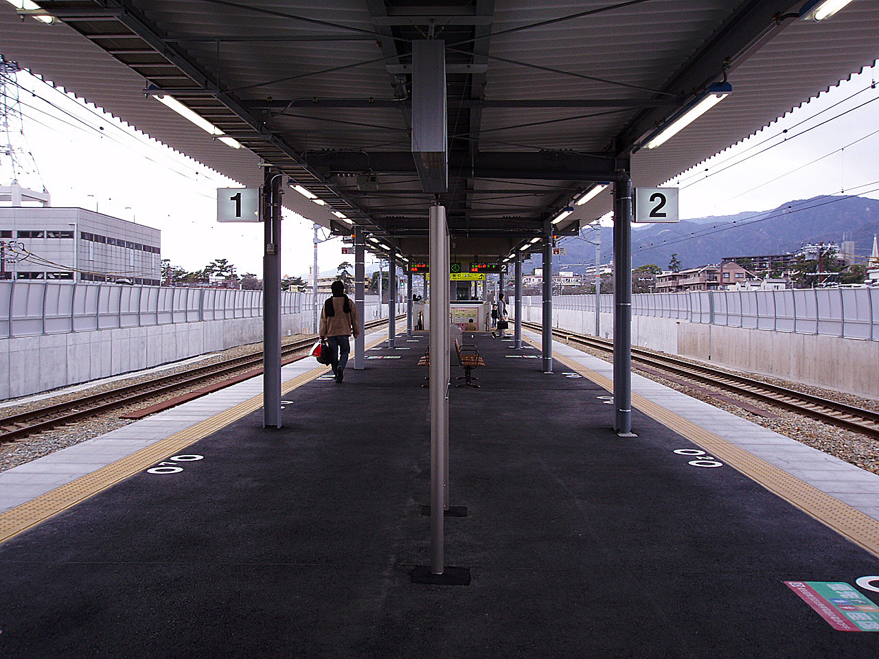 West Japan Railway Tōkaidō Main Line（JR Kōbe Line） Sakurashukugawa Station Platform 西日本旅客鉄道 東海道本線（JR神戸線） さくら夙川駅駅ホーム